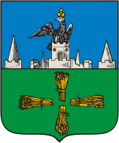 Mtsensk (Oryol oblast), coat of arms (1781)